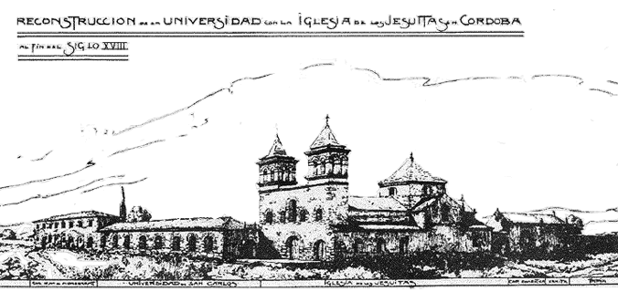 Drawing of the Jesuit block made in the 18th century. Cordoba, Argentina.